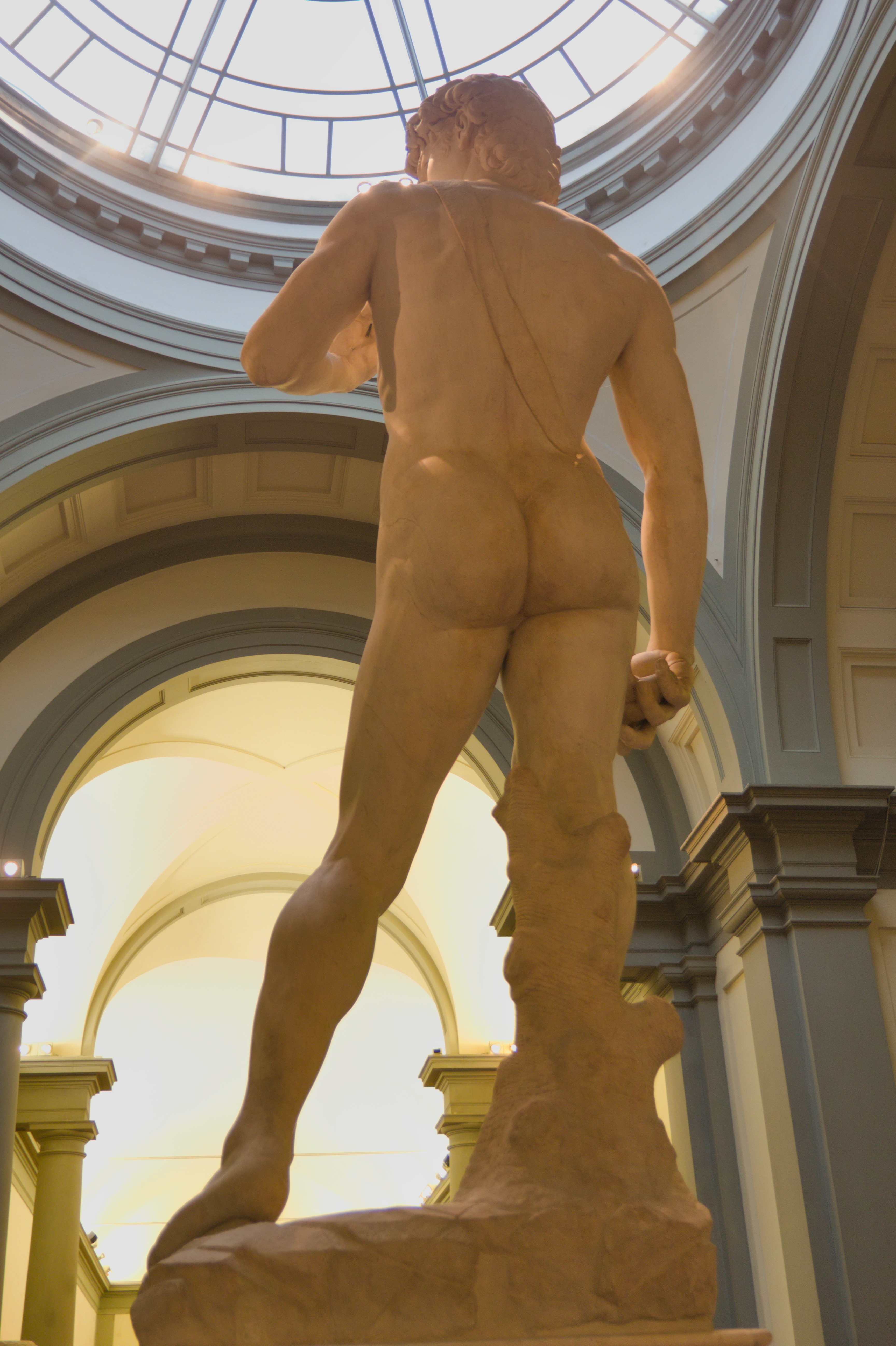 Michelangelo's David in the Acadamy Gallery in Florence, Italy.